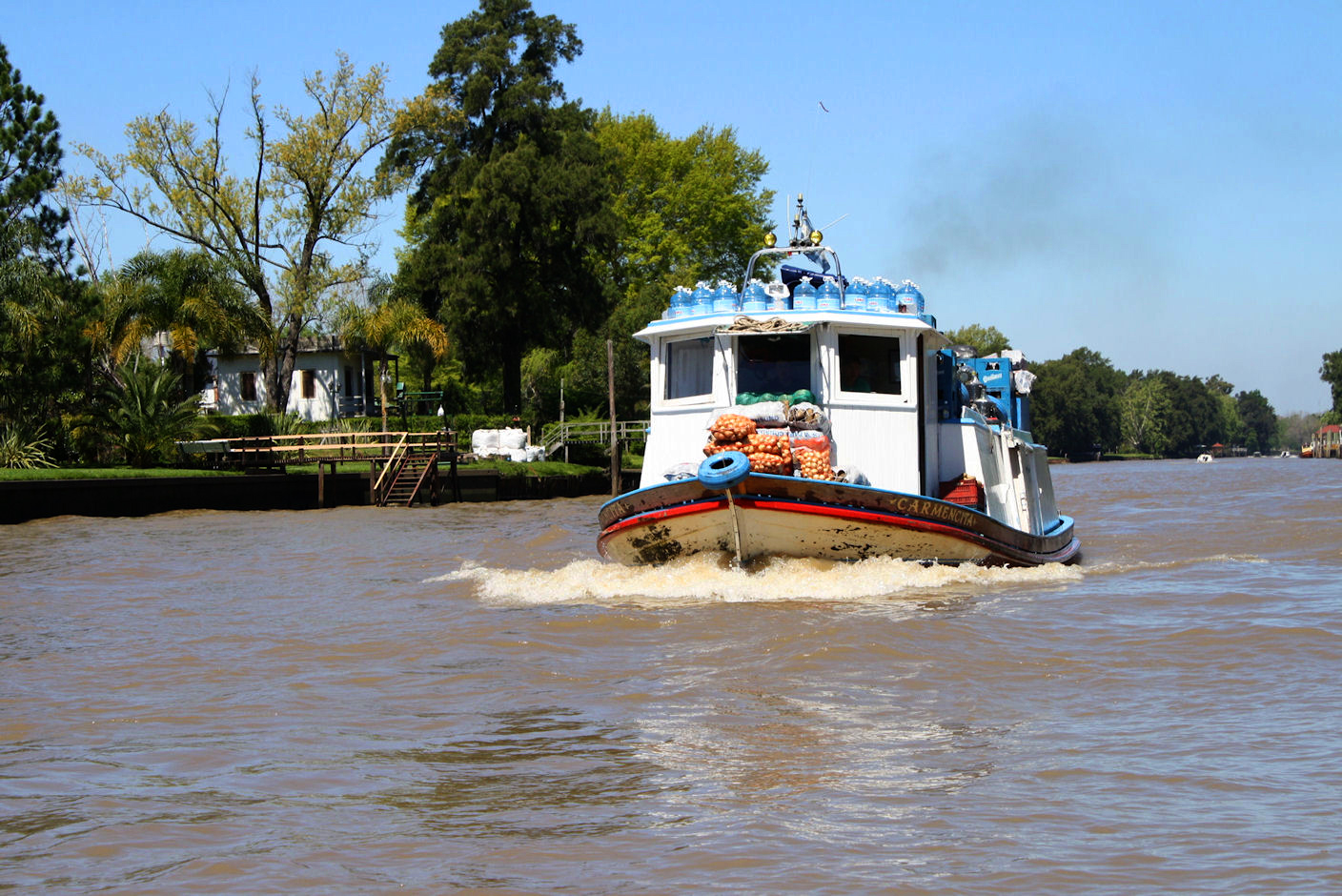 The River Plate Delta at Tigre, Buenos Aires Camera: Canon EOS 1000D License on Flickr (2011-01-26): CC-BY-2.0 Flickr tags: Argentina, Travelsphere, Photo, Photograph, Picture